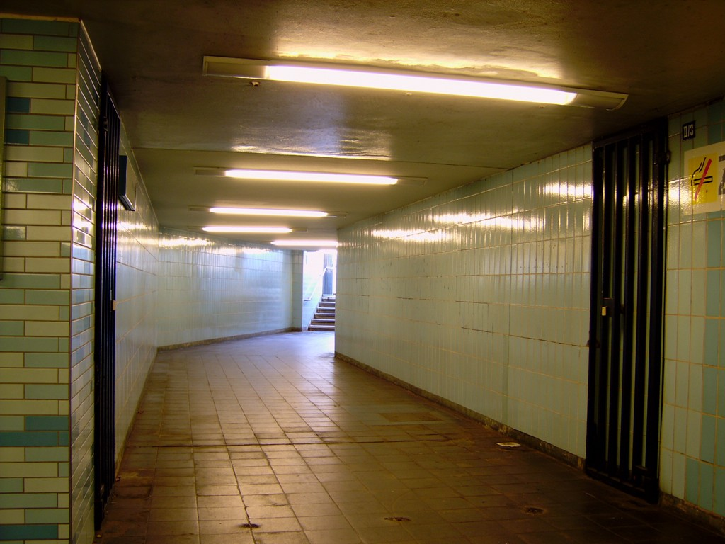 Berlin, pedestriantunnel Ernst-Reuter-PLatz